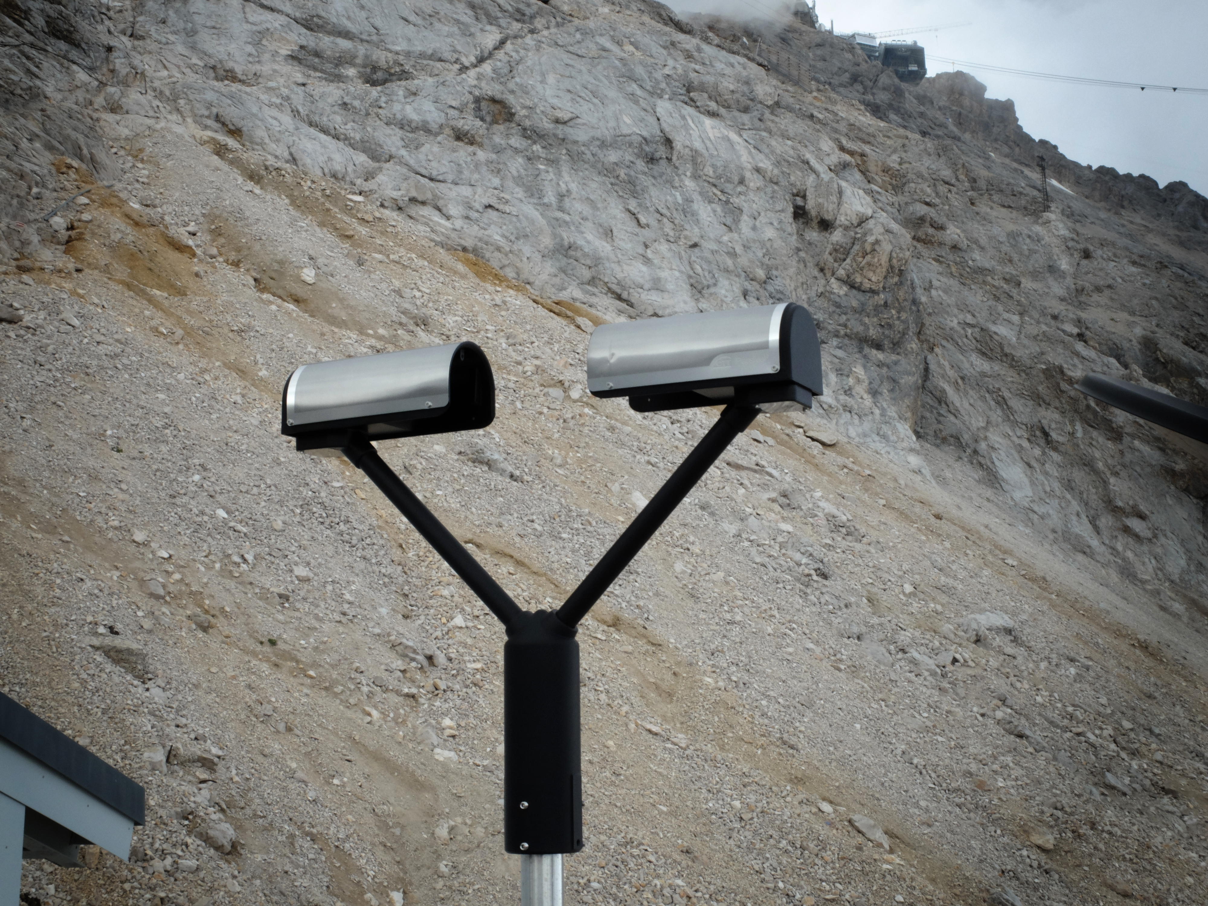 Optical disdrometer (OTT Parcivel2) is a meteorological instrument measuring size and fall speed of precipitation particles, using a narrow laser beam. This photo was made at the Schneefernerhaus observatory (Zugspitze).